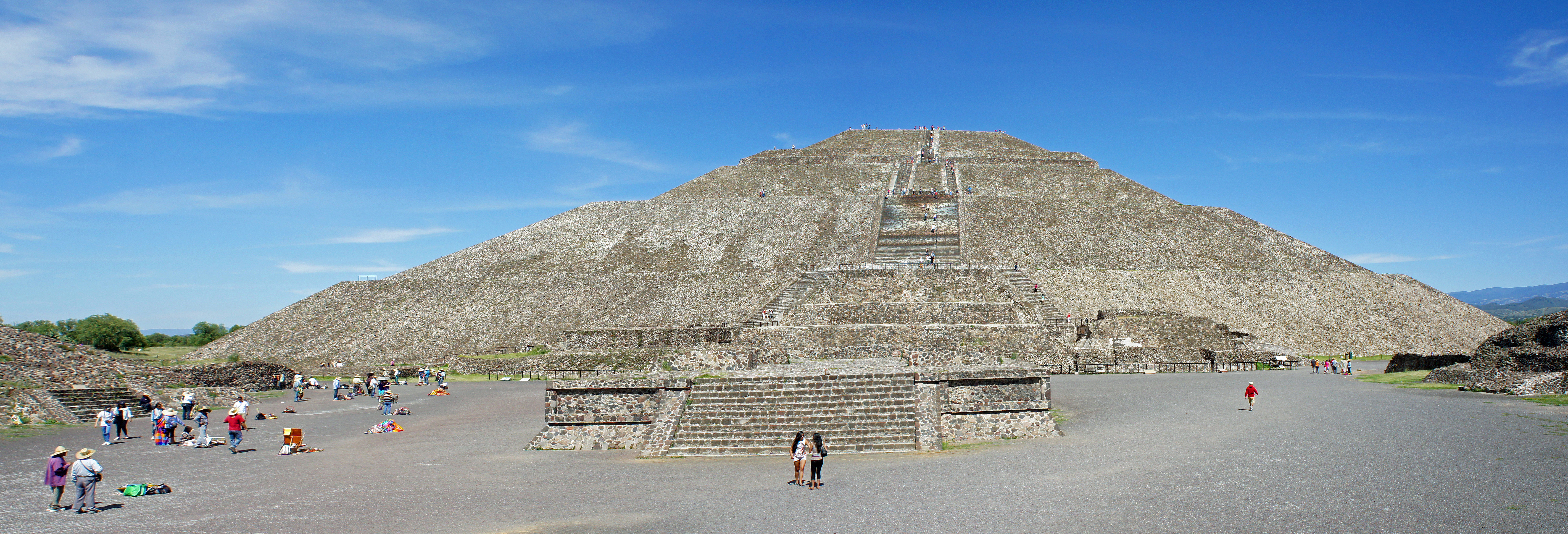 Panoramic view of the pyramid of the Sun, Teotihuacan, Mexico.